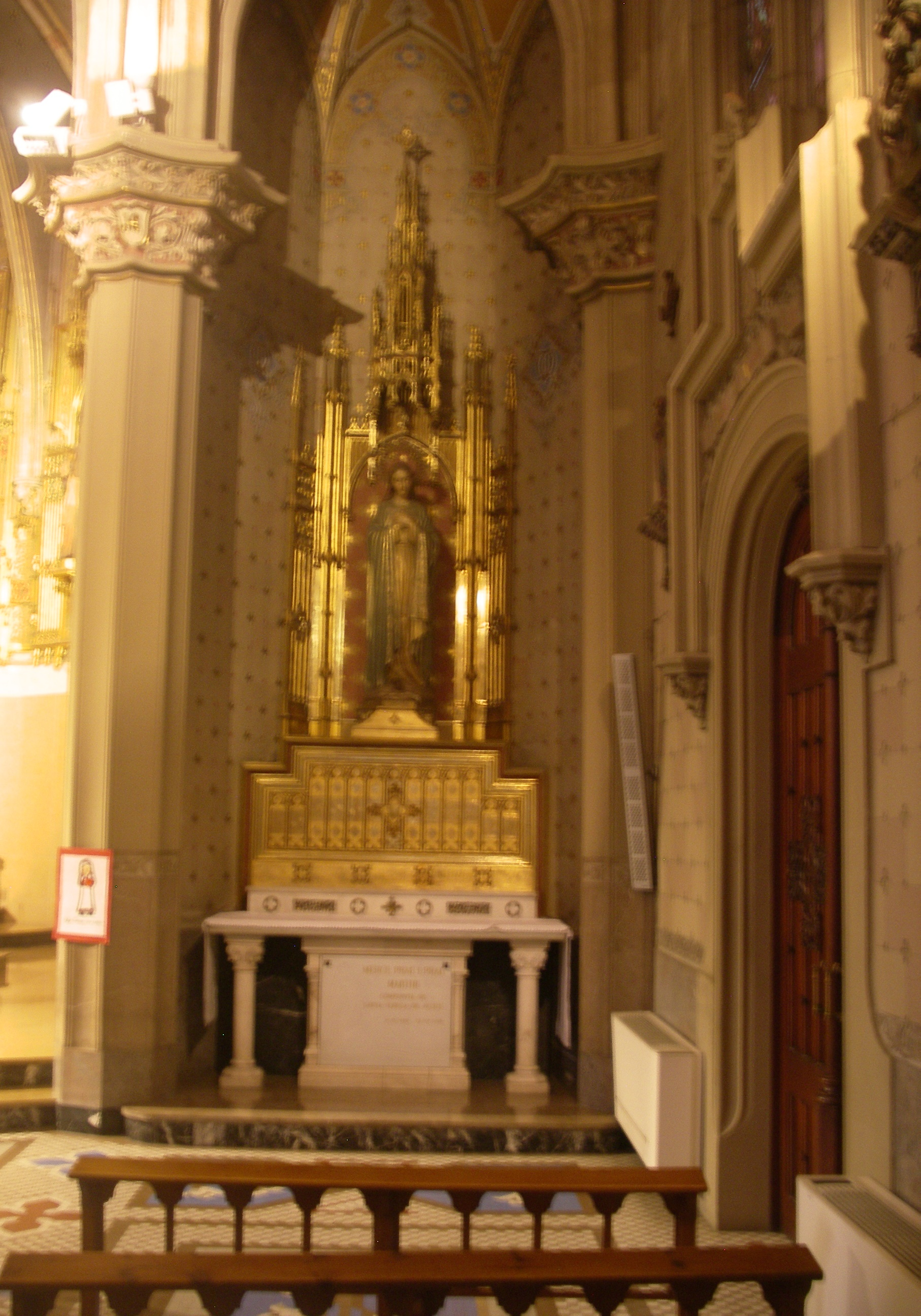 Burial of Blessed Mercè Prat, teresian nun died in 1936. Chapel of the Teresianes school and convent (Barcelona).